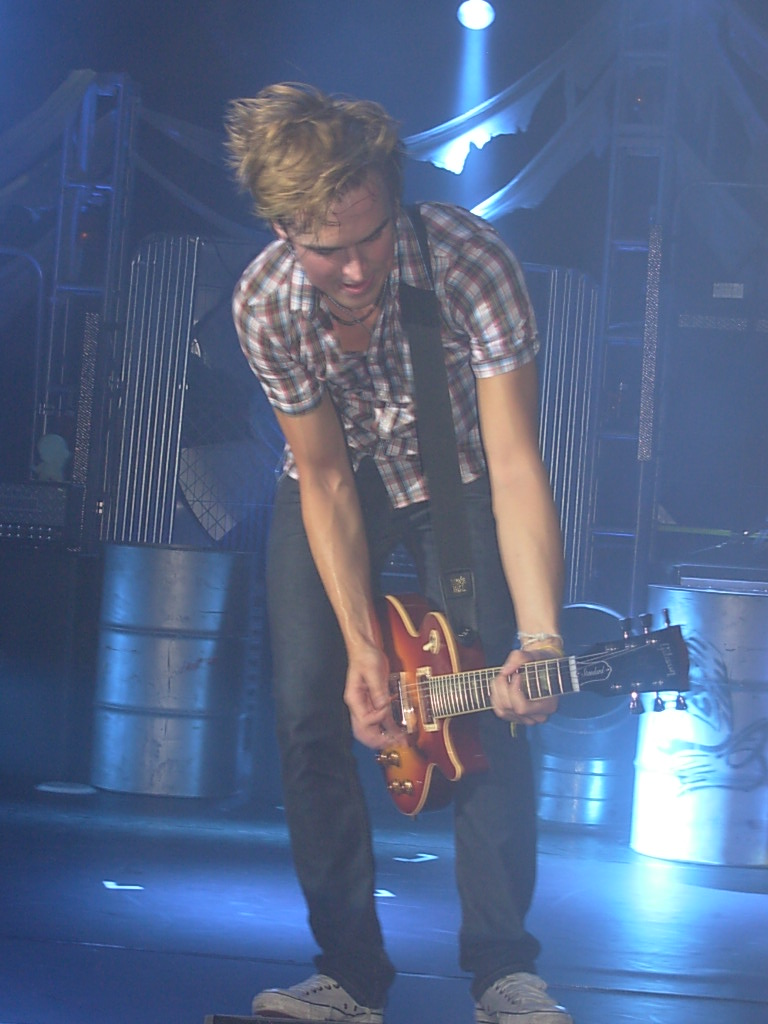 Tom Fletcher at HMV Hammersmith Apollo.